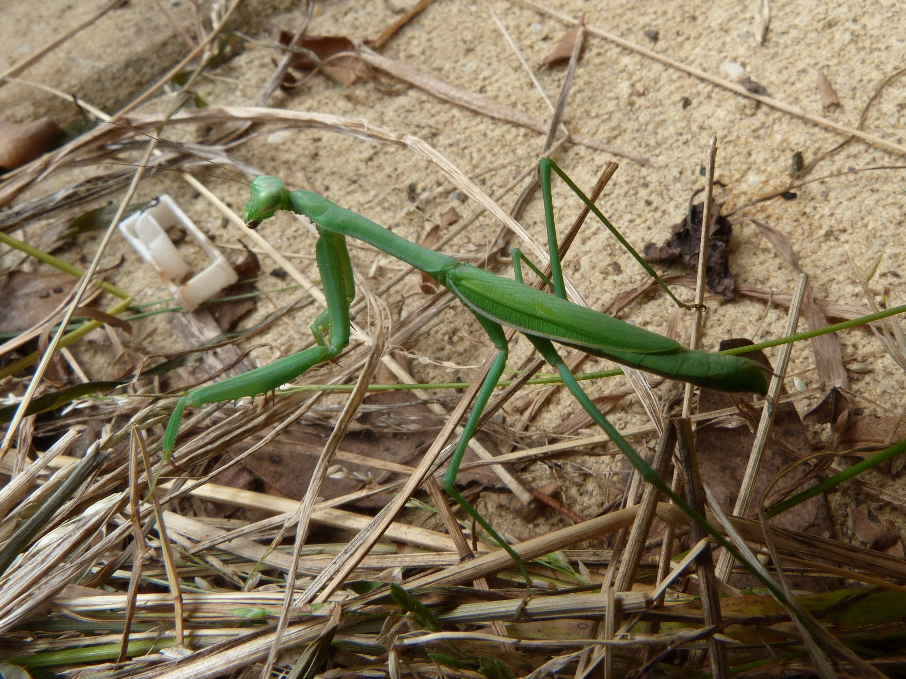 Pseudomantis albofimbriata (Stål, 1860), female, Aranda, ACT, 19 February 2011